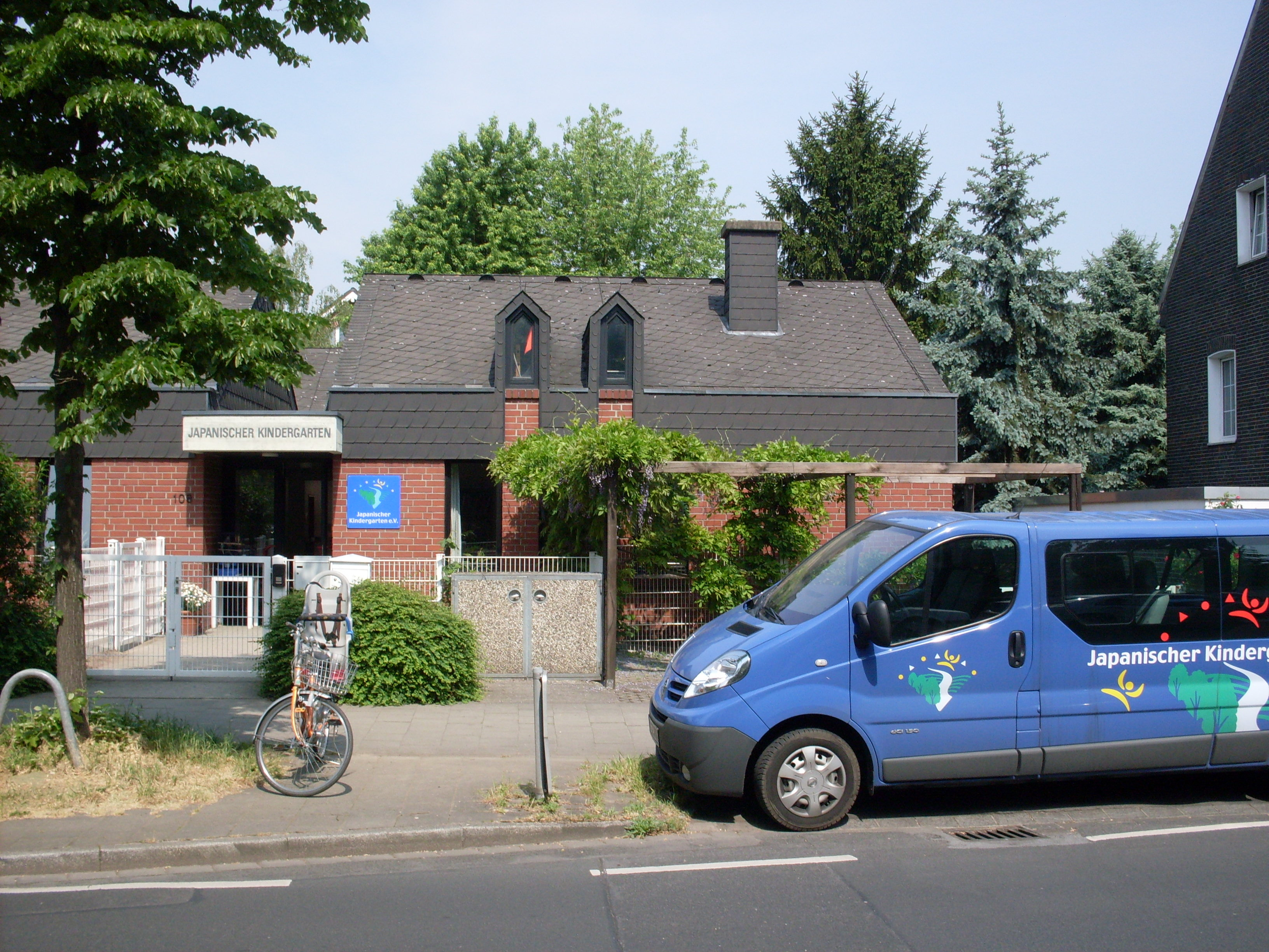 Japanese Kindergarten, Niederkassel, Düsseldorf